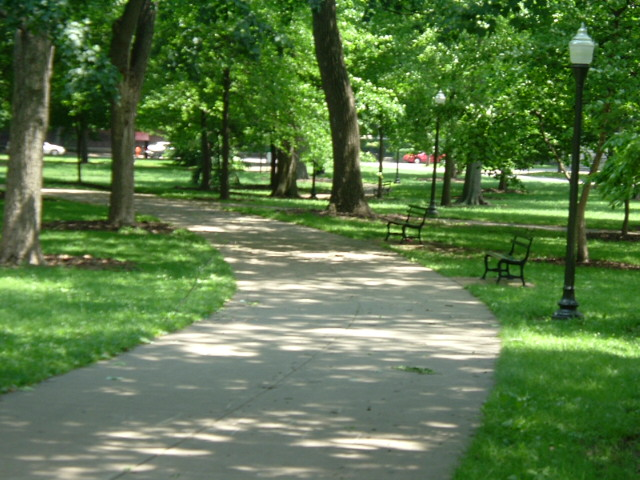 Picture of Central Park, Old Louisville. Taken by Jeffrey B. Morris on May 26, 2006, the year of the dog. All rights released.